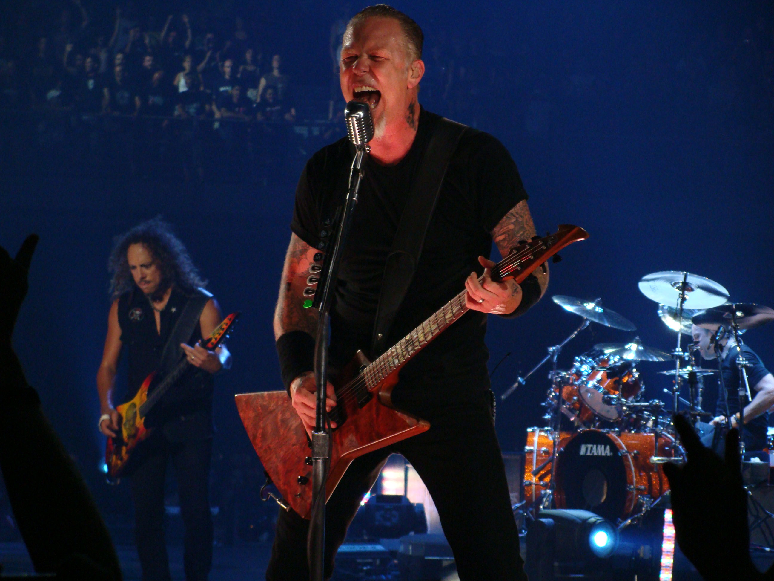 James Hetfield (Metallica)